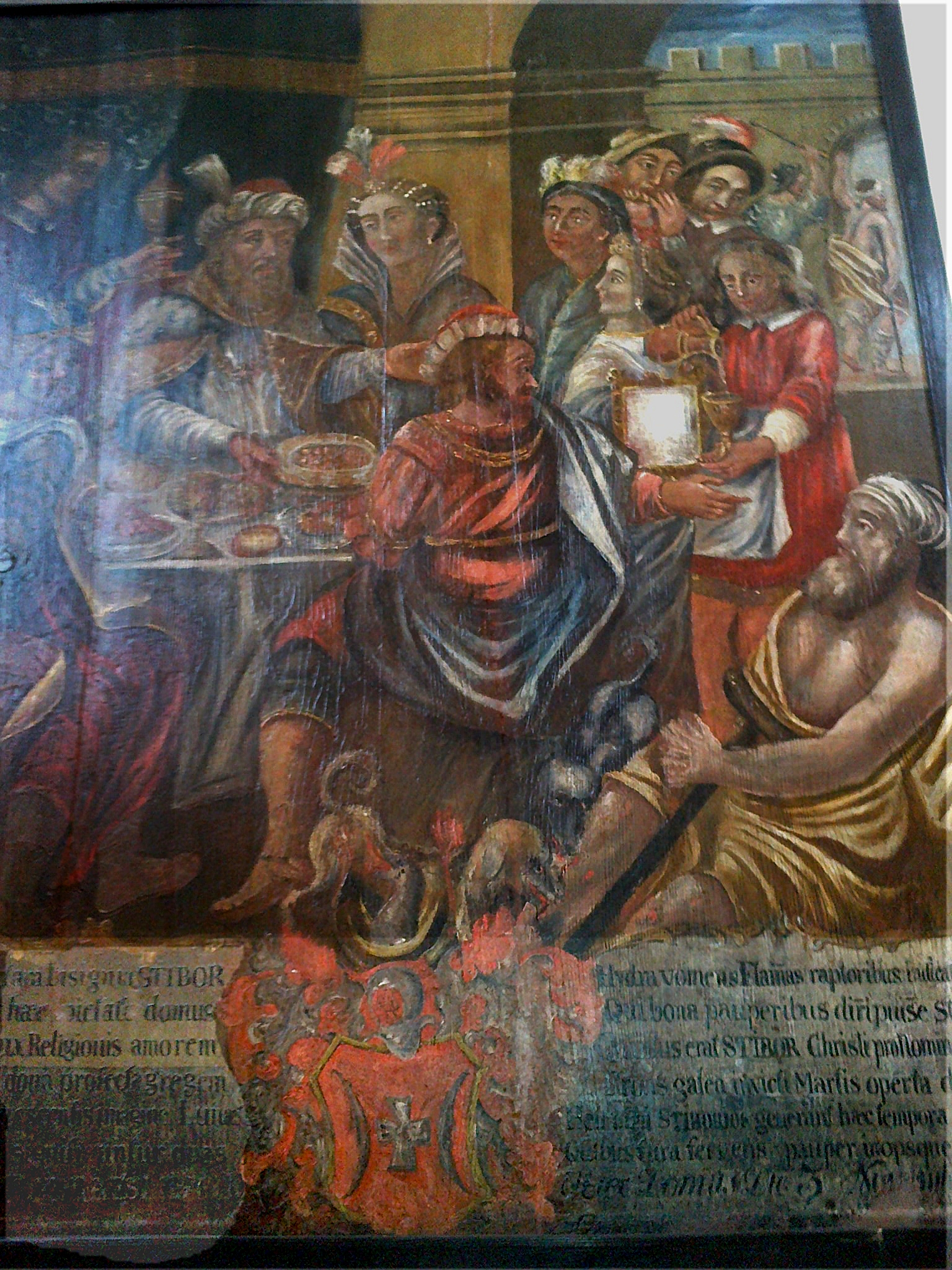 Photo of "Lazar and the Richman" that is a copy from ab. 1650 of a painting from ab. 1430 that was given by the Stibor de Beckov to he hospital in Nové Mesto nad Váhom, a town his father created. The hospital was built by Stibor de Beckov according to his fathers will. Therefore, the photo of this painting clearly shows the CoA of Stibor and also latin text that praises the family of Stibors for their kindness and for protecting the poor.